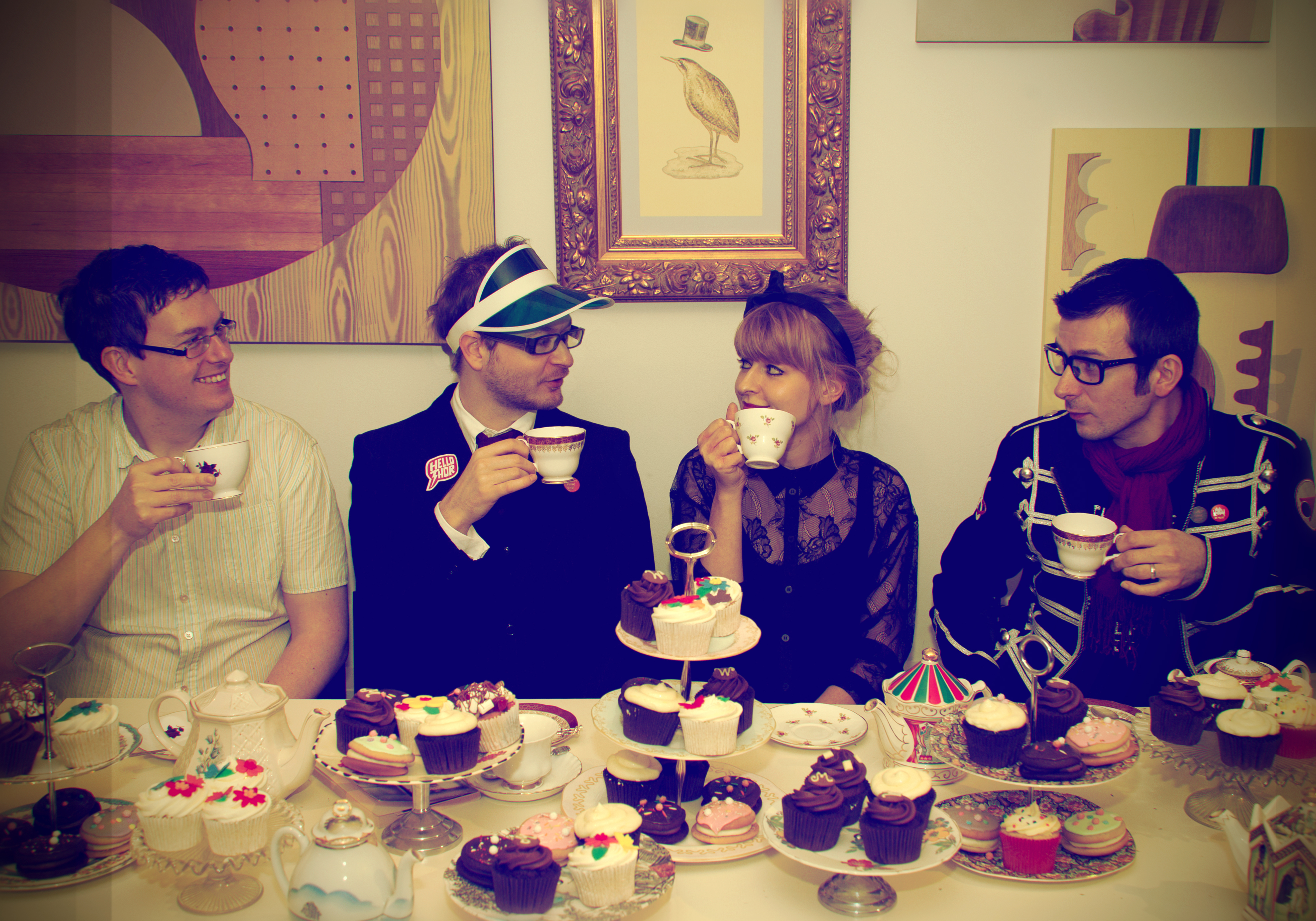 The electronic rock band Yunioshi drinking tea with plenty of cakes. From left to right: James Yunioshi, Rob Yunioshi, Anna Yunioshi Suzuki and Hakushi Yunioshi.